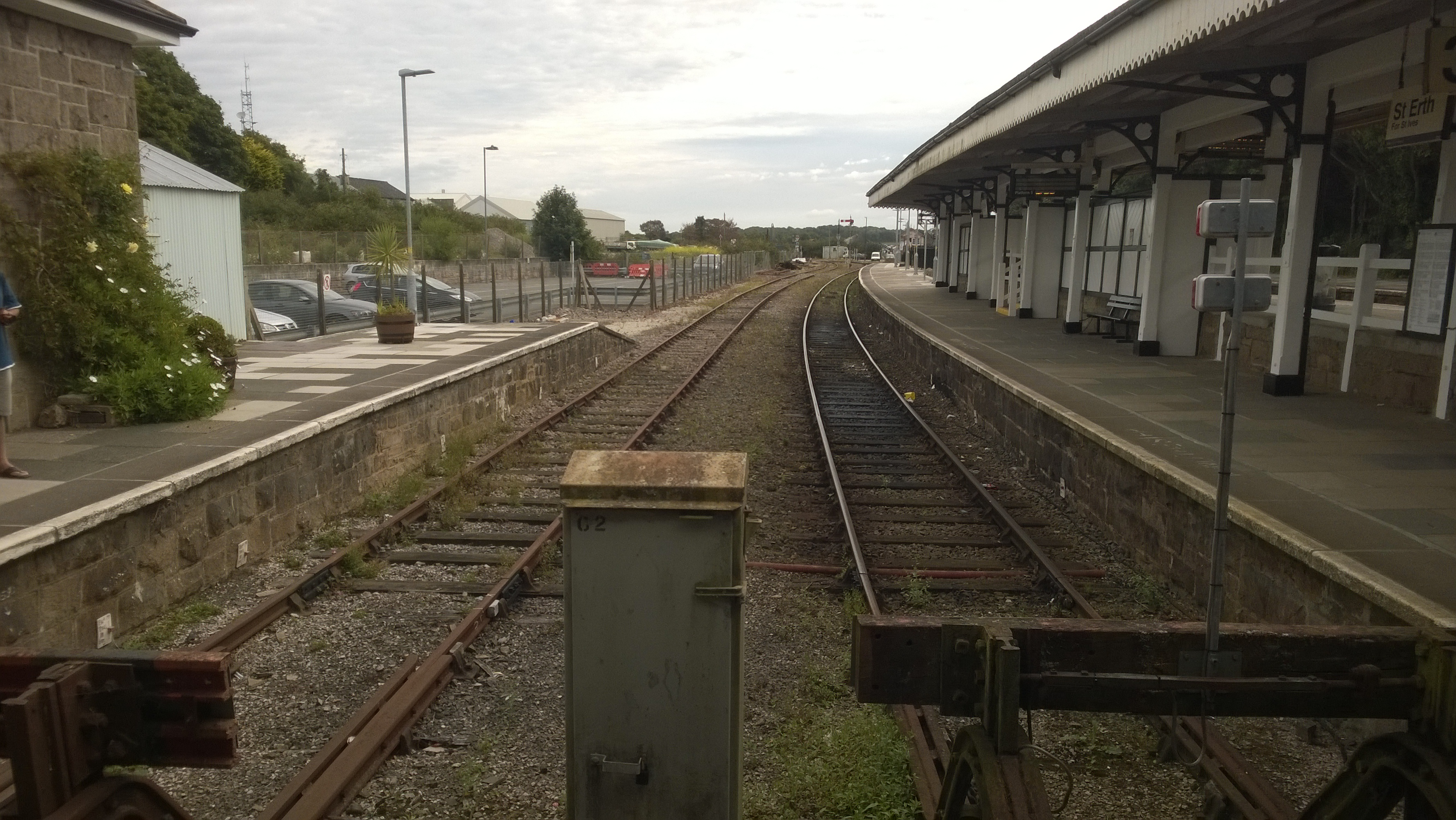 The bay platforms at St Erth station. The track to the right is adjacent to Platform 3, and is regularly used by the shuttle services on the St Ives Bay Line. The track to the left is disused and the adjacent, single-car platform face is unnumbered.